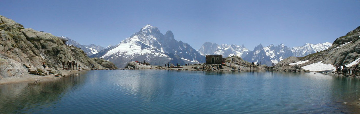 Lac Blanc in the Aiguilles Rouges, Chamonix Valley, France.